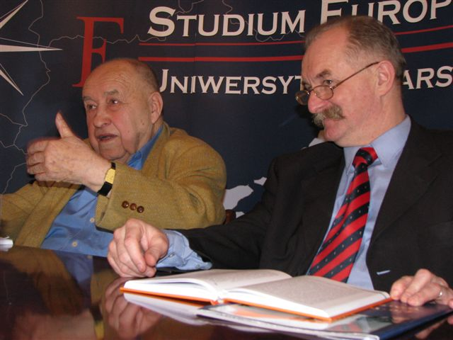 Bohdan Osadchuk (1920-2011), Ukrainian historian and publicist and Jan Malicki (b. 1958), Polish historian